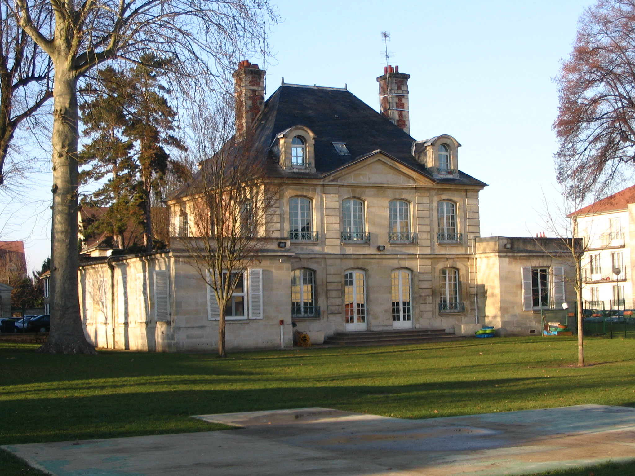 The old building hosting the Centre de Loisirs of Chambly, Oise, France.